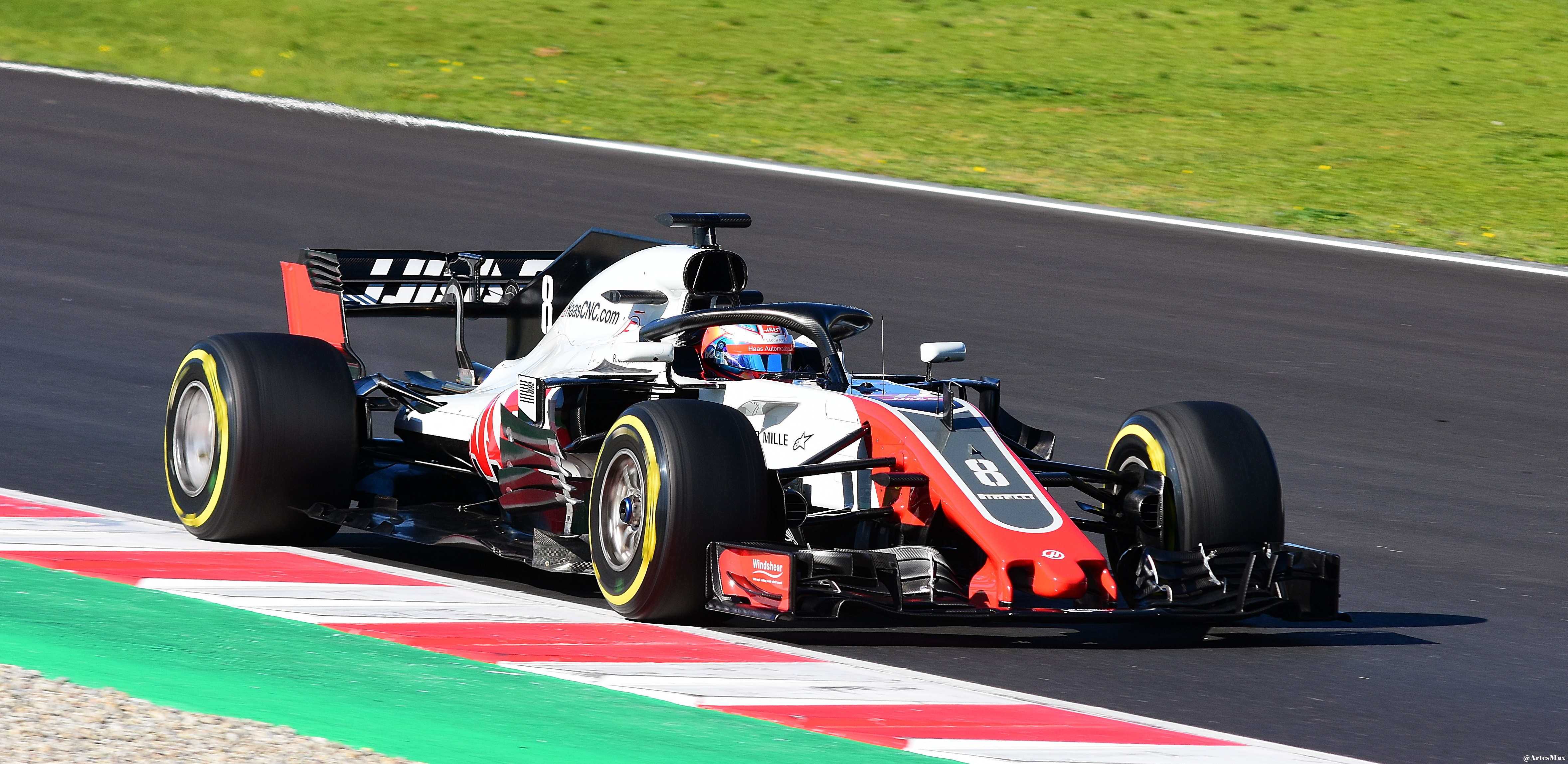 Romain Grosjean testing the Haas VF-18 during pre-season testing in Barcelona.